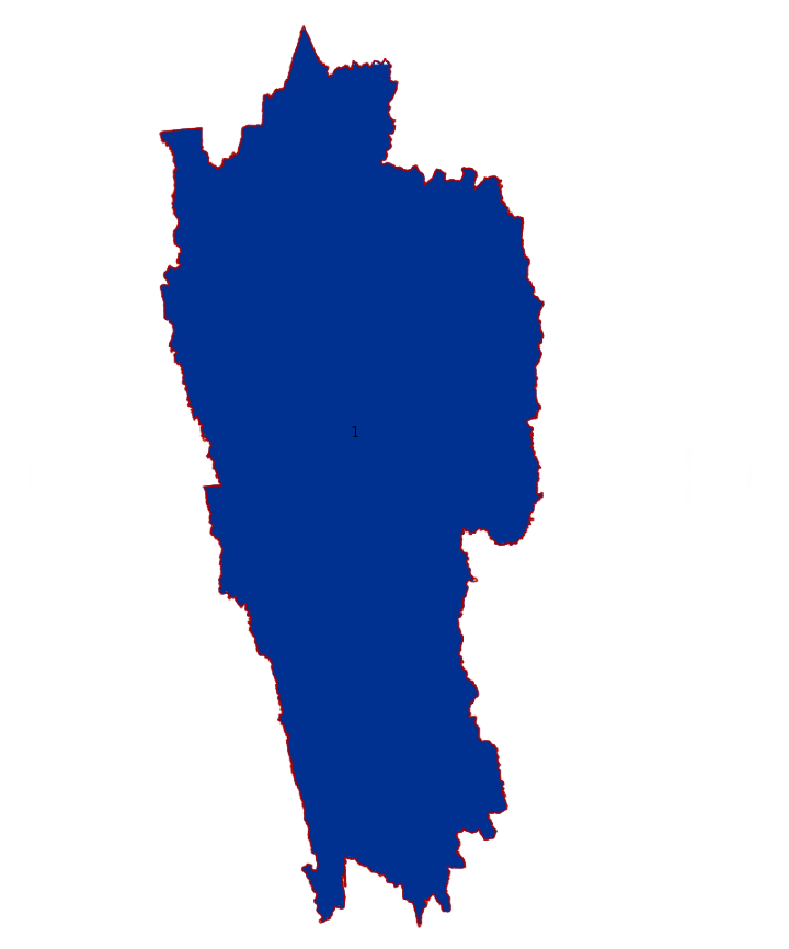 Seat won by party in Mizoram parliamentary constituency